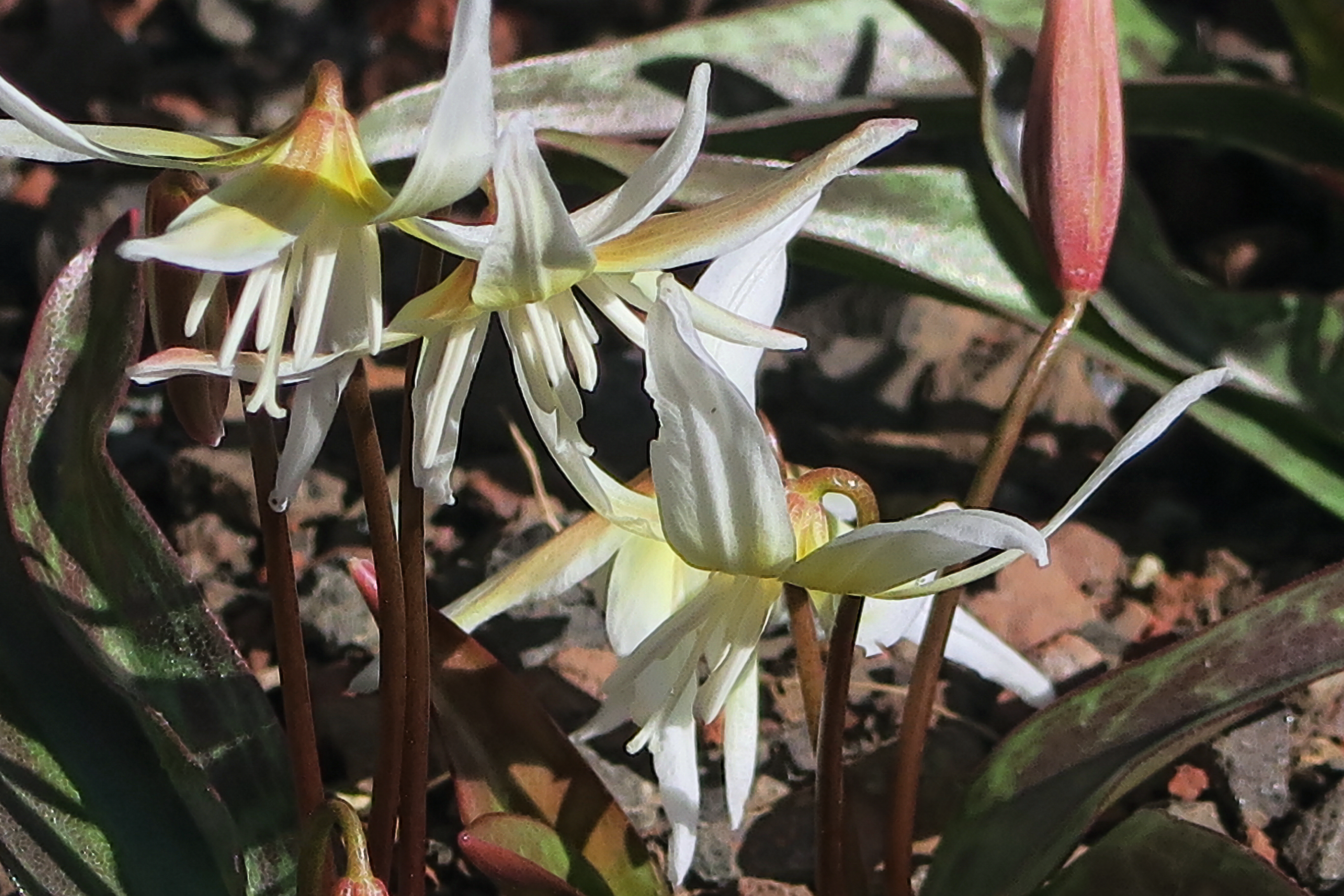 Erythronium multiscapideum 'Cliftonii'—Clifton's Fawn Lily. The label at Regional Parks Botanic Garden reads "Erythonium 'Cliftonii' INED", which means that the name is taxonomically illegitimate. The plants are probably best considered as a naturally occurring form of Erythronium multiscapideum to be found in cliffs at the northeastern edge of the Sacramento Valley. It is available in the trade, both in the United States and abroad, as "Erythronium cliftonii". Confused? so is everybody else. Photographed at Regional Park Botanic Garden located in Tilden Regional Park near Berkeley, CA